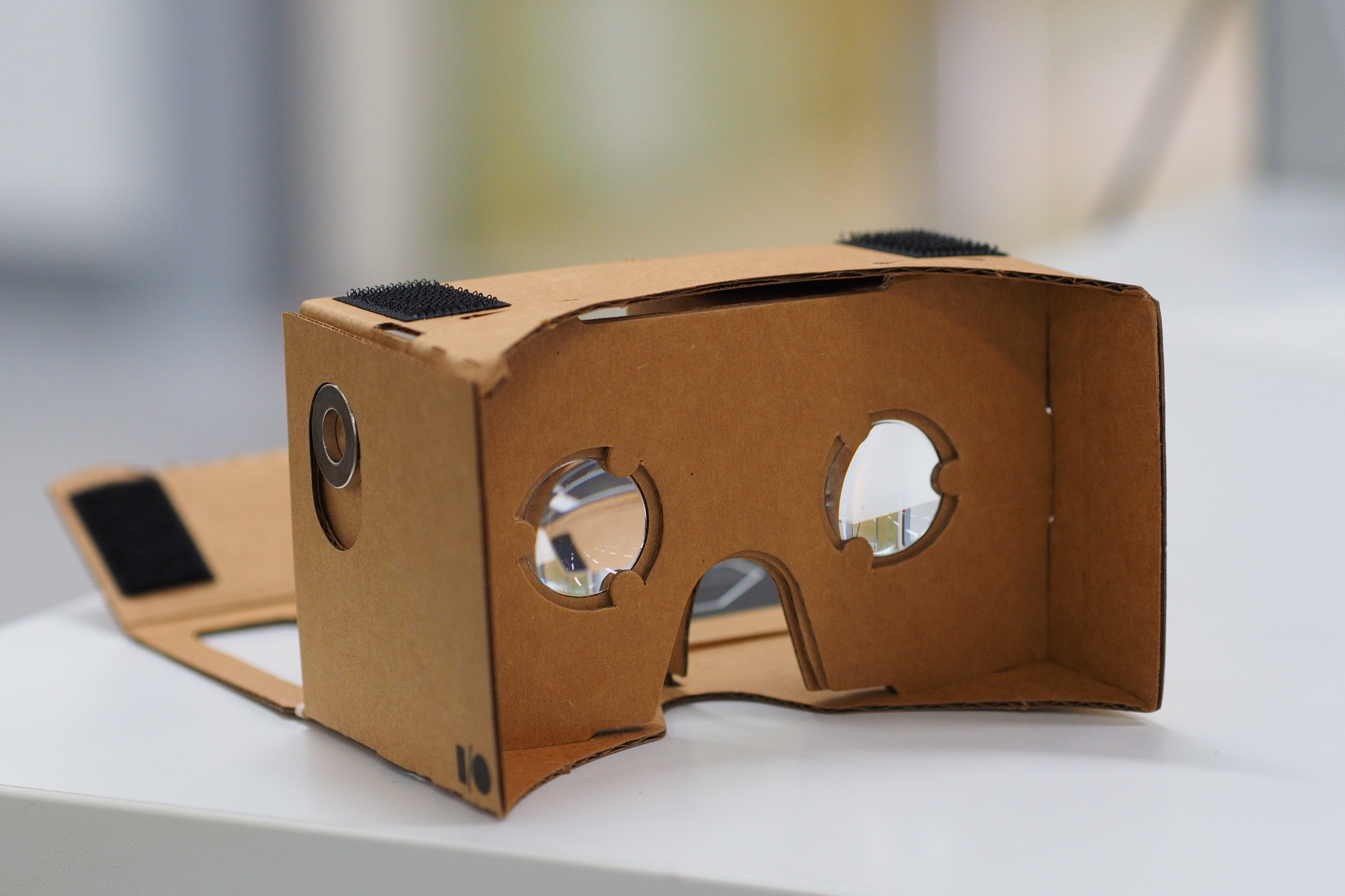 An assembled Google Cardboard VR mount